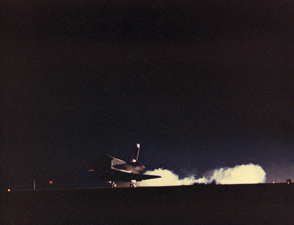 Space Shuttle Columbia touches down at Edwards Air Force base at the conclusion of mission STS-35.